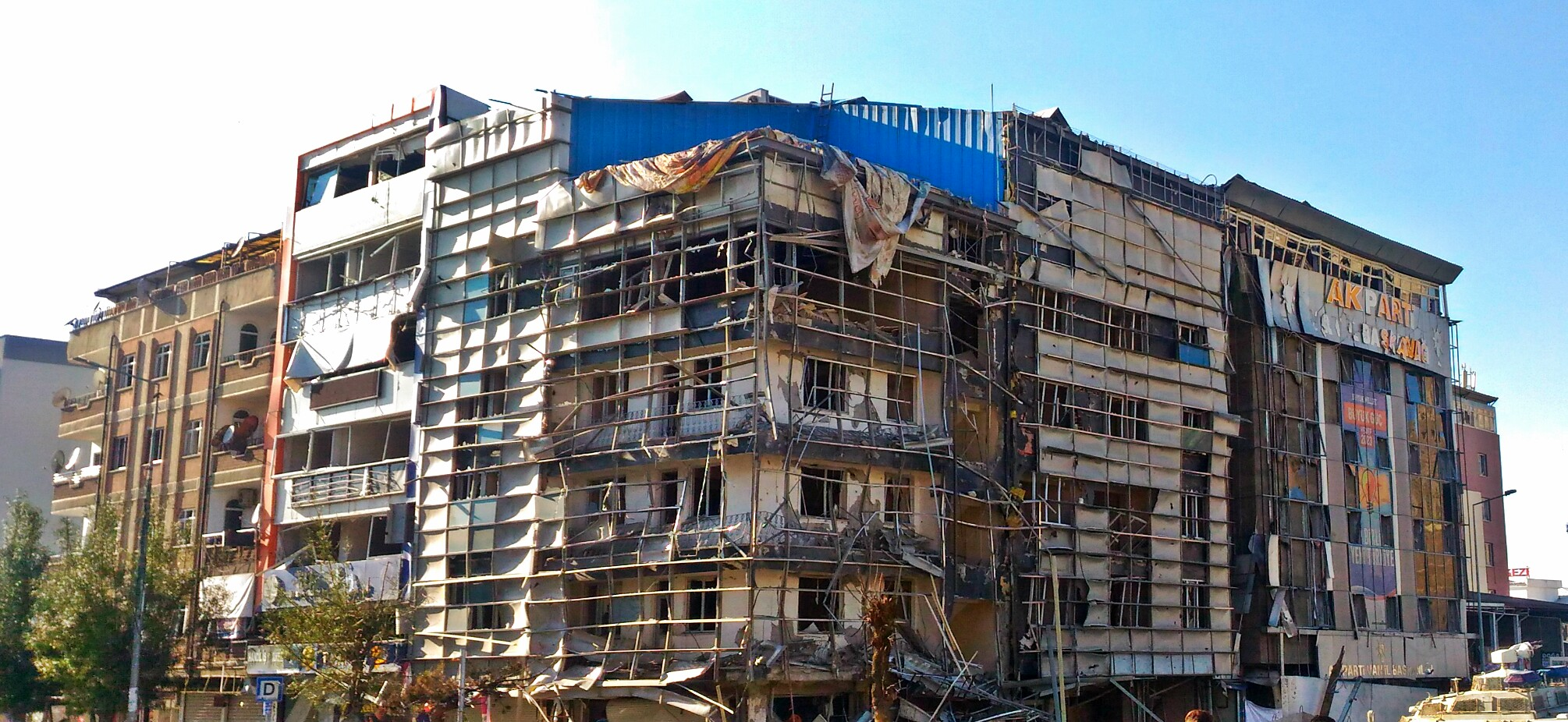 12 September 2016 Justice and Development Party building in Van after PKK attack with bombing car